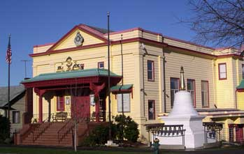 Photo of the Sakya Monastery, 108 NW 83rd Street, Seattle, USA.